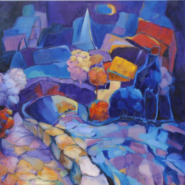 Amélie-les-Bains, France